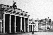 In 1930 the Blücher Palace, located on Pariser Platz, was purchased as a new and permanent home for the U.S. Embassy in Berlin.